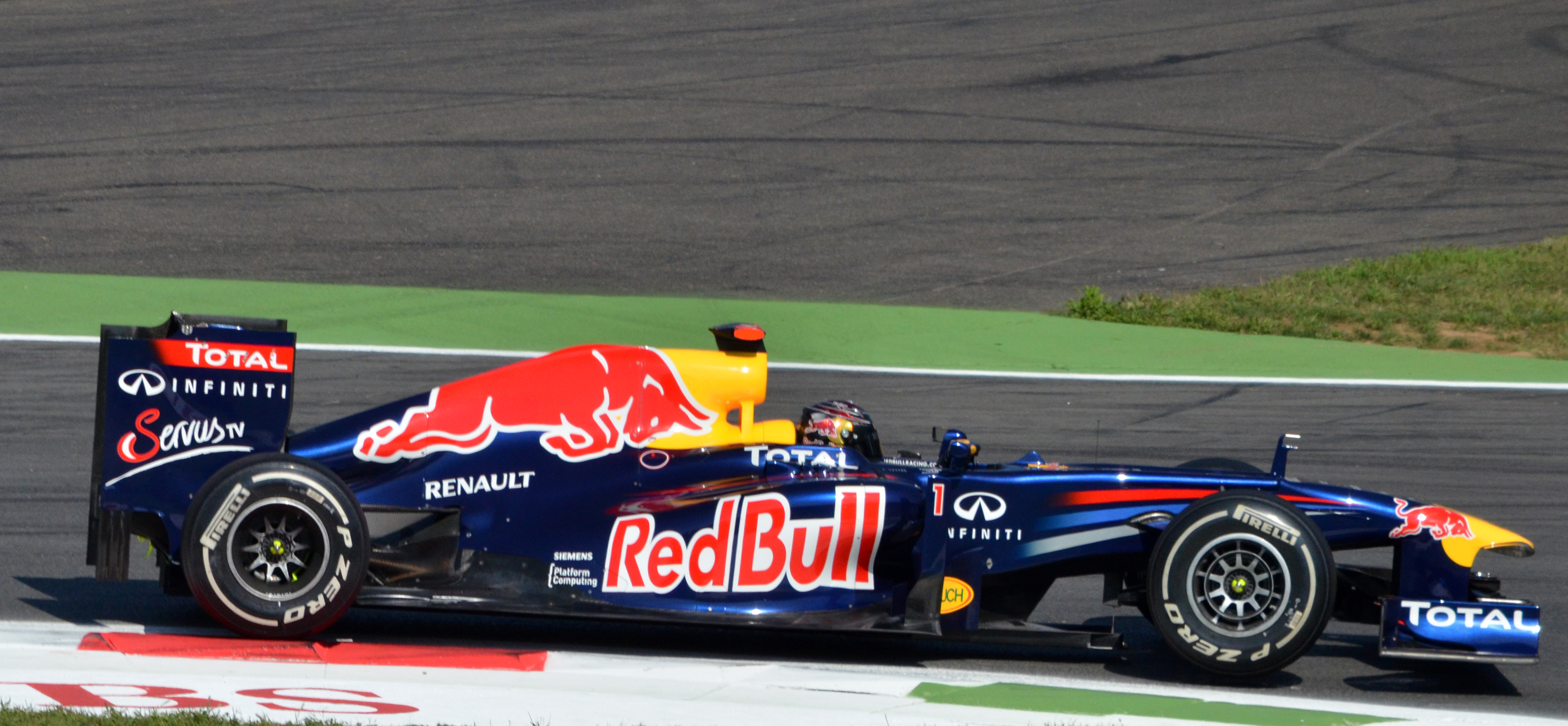 2010 World Champion Sebastian Vettel riding the kerb at Rettifilo in his Red Bull-Renault RB7 during first practice for the 2011 Italian Grand Prix at Monza.